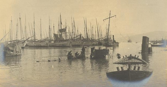 Ottoman torpedo boat Ankara sunk by gunfire from Italian cruisers Giuseppe Garibaldi and Varese at the battle of Beirut on February 24, 1912.